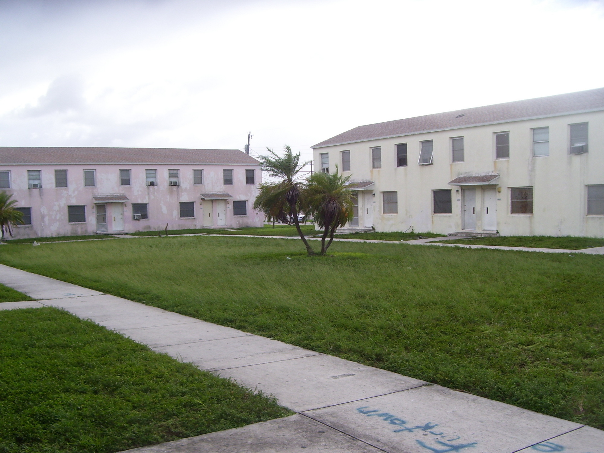 Liberty Square Housing Projects, Miami, Florida